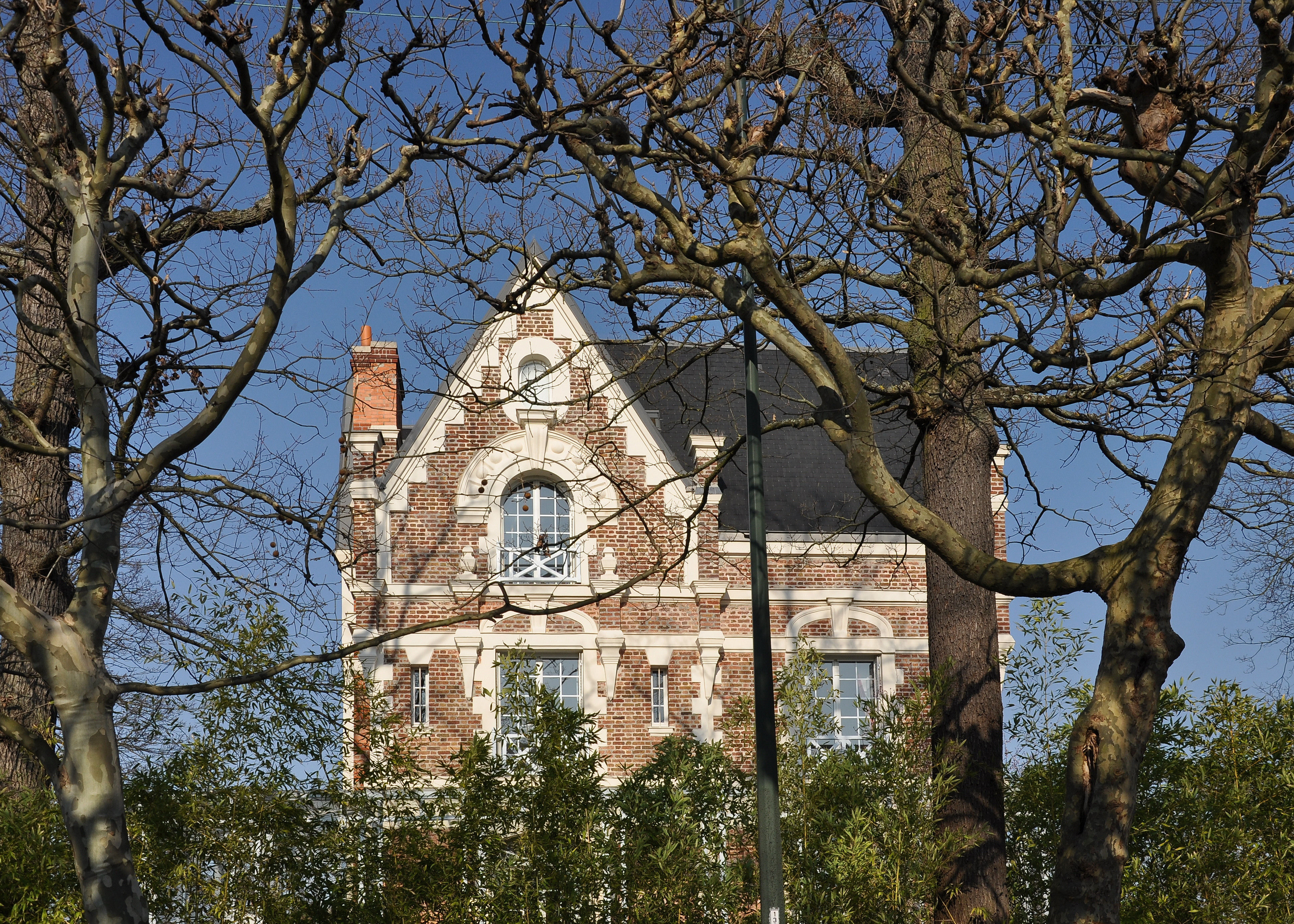 The house located at 8 avenue du Belloy in Le Vésinet, department of Yvelines in France. In this house lived during around thirty years the film-maker of Polish origin Walerian Borowczyk. He died on February 3rd, 2006, following cardiac complications.